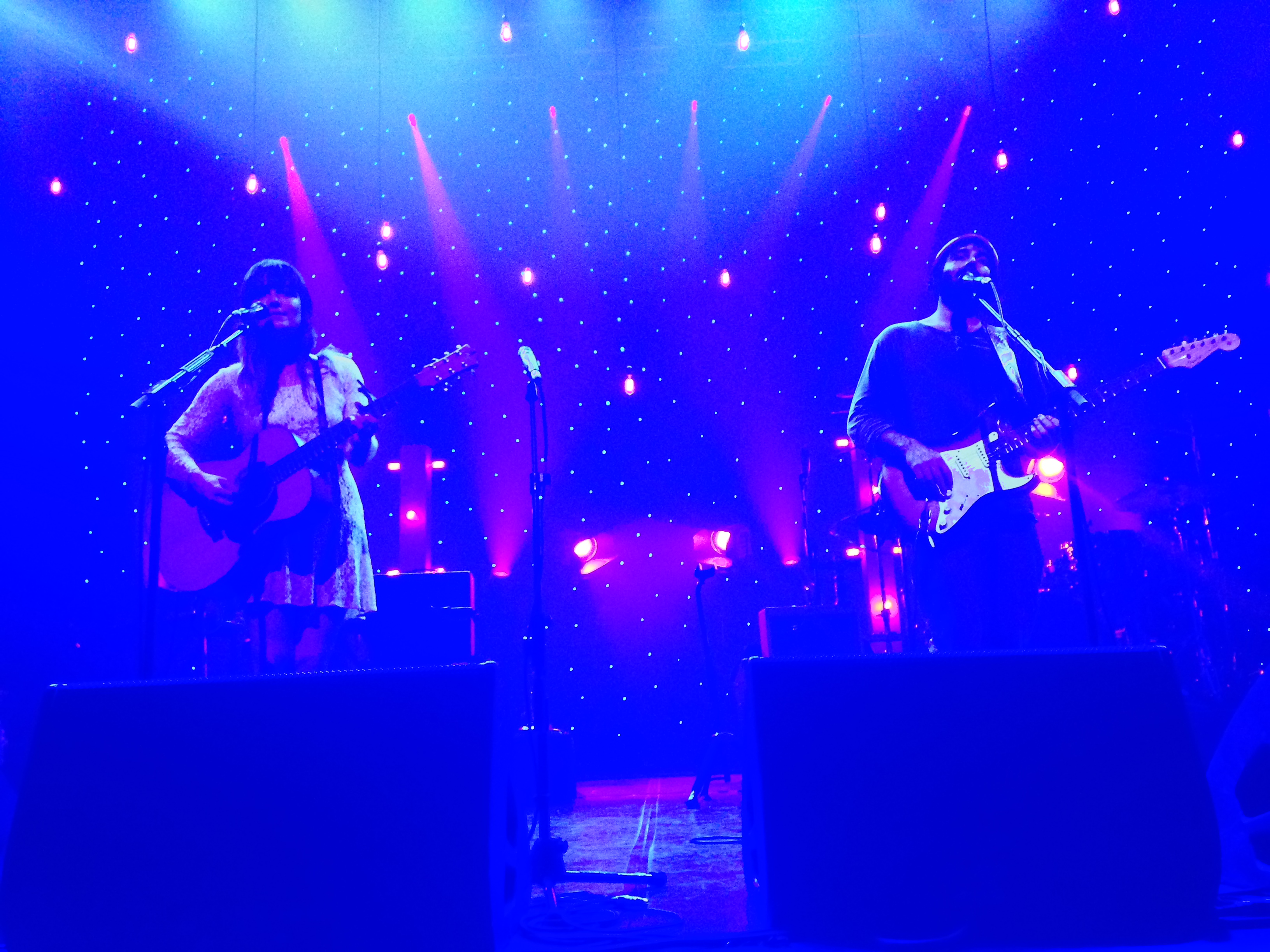 Angus and Julia Stone performing live at Casino de Paris, Paris, France on 9th December 2014.